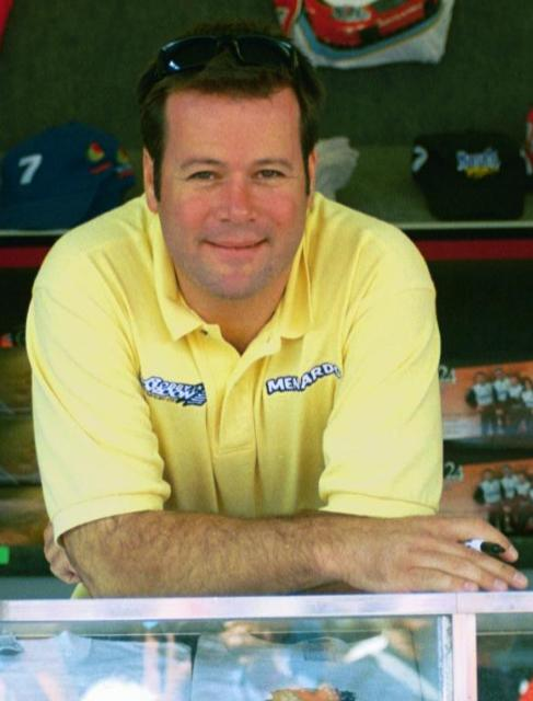 Robby Gordon at Indianapolis